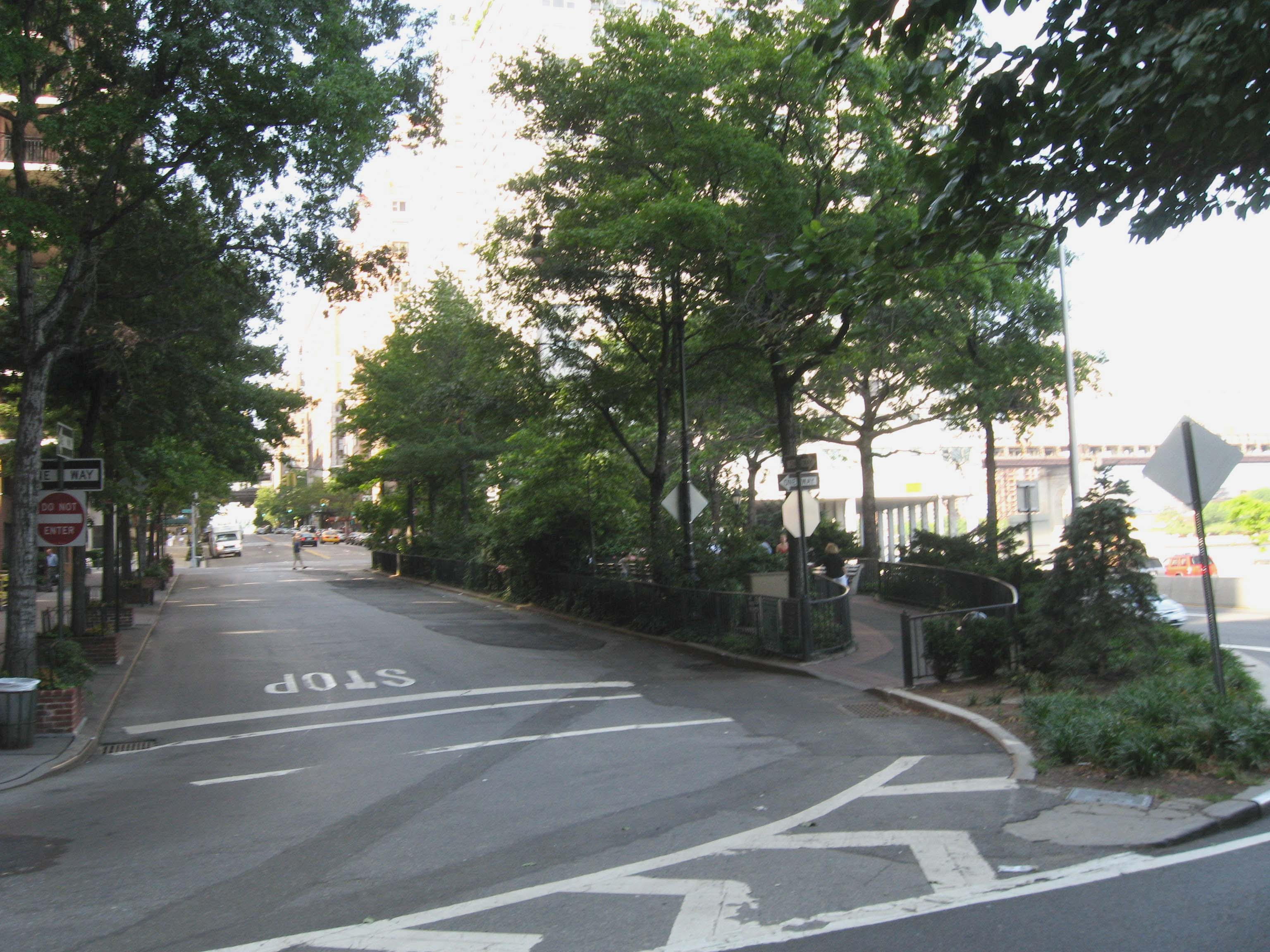 Looking north at the foot of Sutton Place, Manhattan on a sunny afternoon from en:53rd Street (Manhattan)